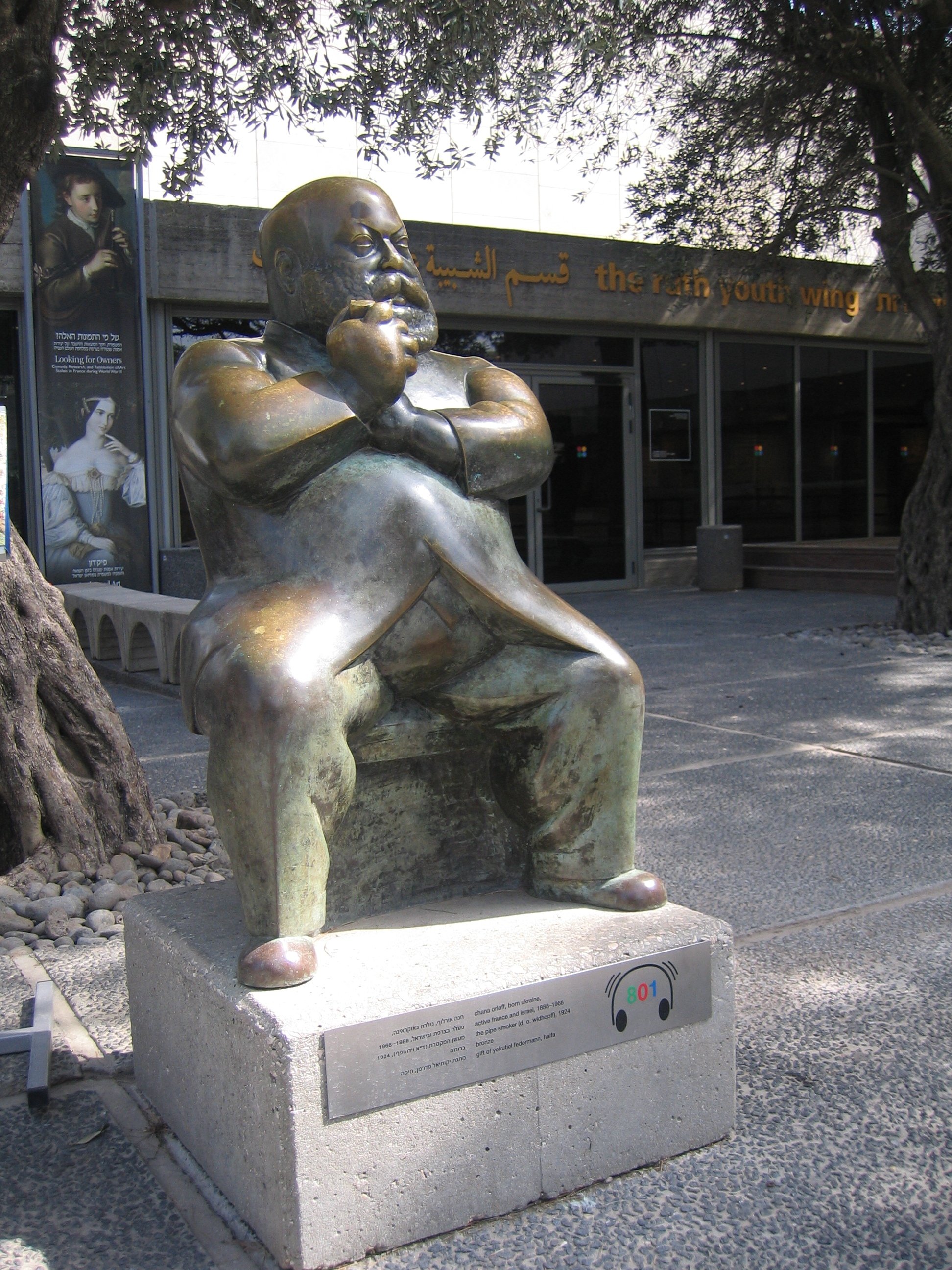 Chana Orloff'S "The Pipe Smoker (D. O. Widhopff)" 1924 in front of the Ruth Youth Wing.